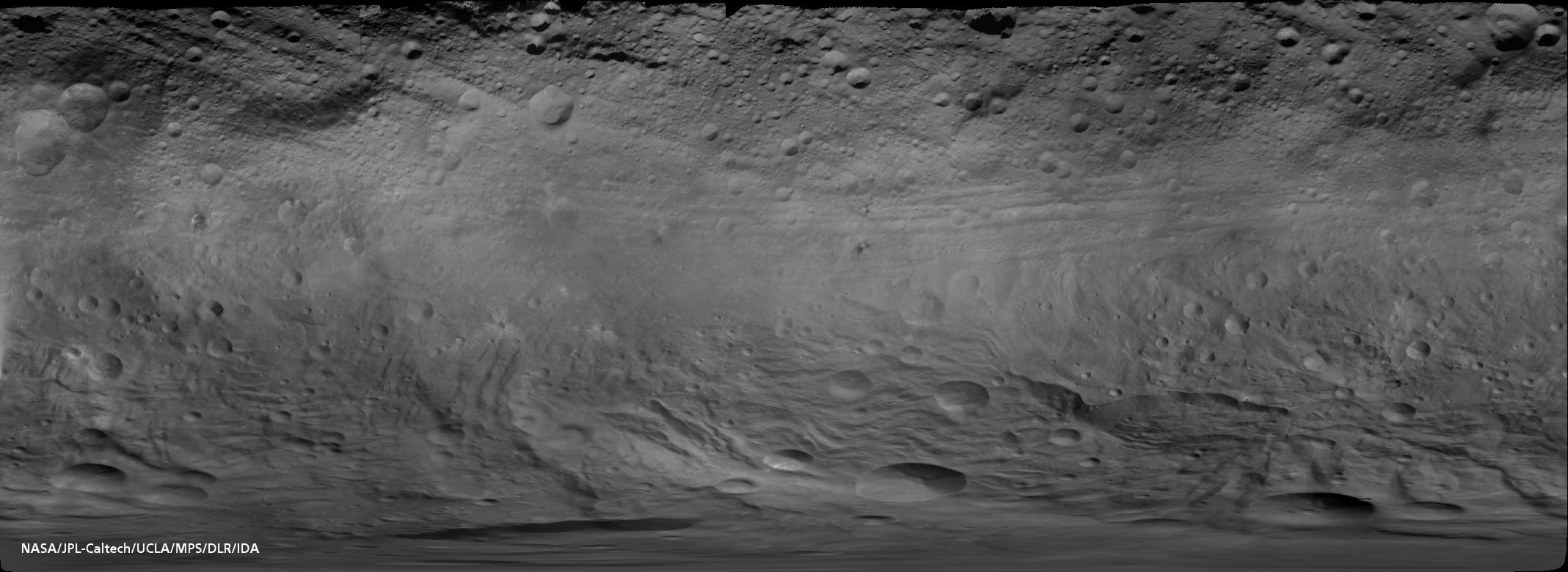 The first global photomap of asteroid 4 Vesta, based on DAWN probe framing camera imagery. 260 meters per pixel. The south pole is at bottom edge, the equator is above the bright, smooth band of troughs in upper middle part.